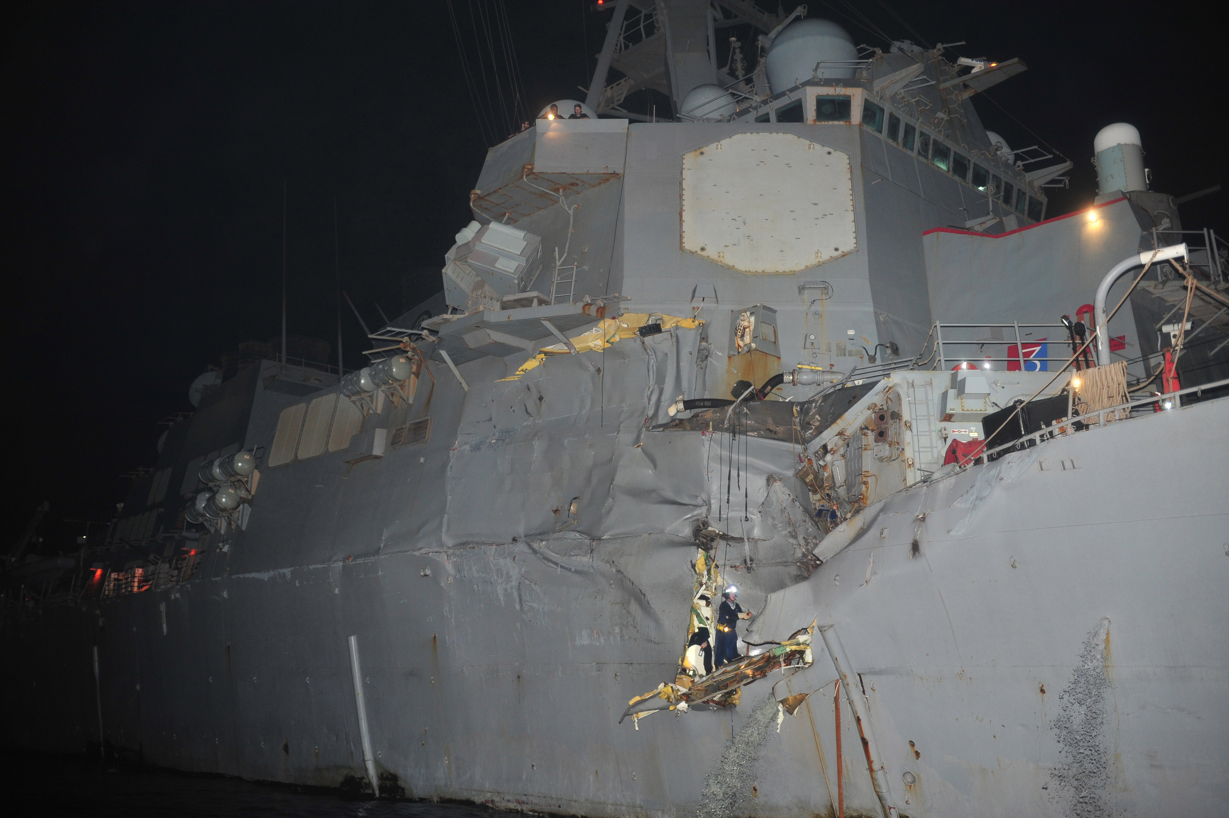 ARABIAN GULF (Aug. 12, 2012) Guided-missile destroyer USS Porter (DDG 78) was damaged in a collision with the Japanese owned bulk oil tanker M/V Otowasan in the Strait of Hormuz. No personnel on either vessel were reported injured. Porter is on a scheduled deployment to the U.S. 5th Fleet area of responsibility conducting maritime security operations and theater security cooperation efforts.